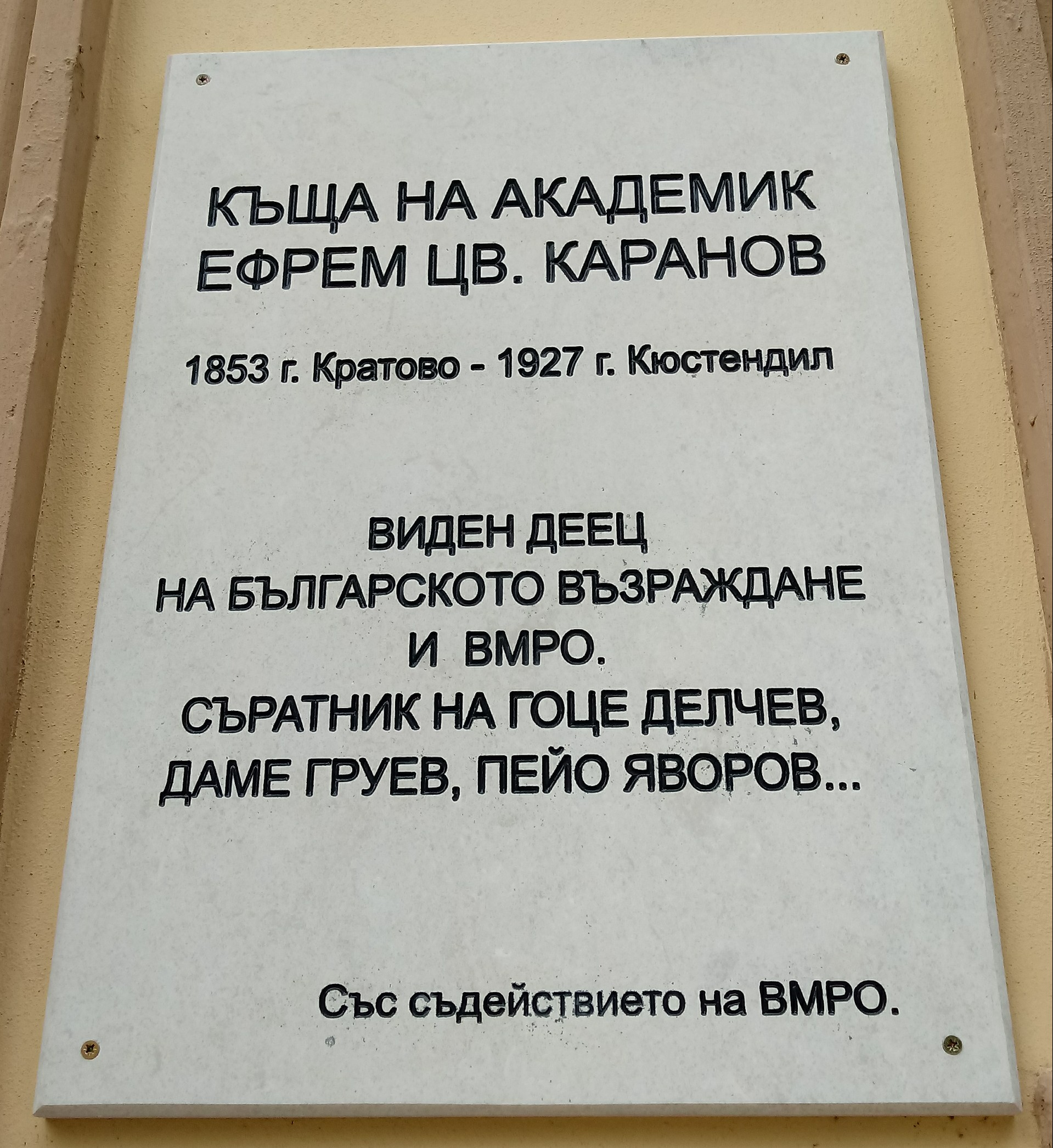 Memorial plaque of Acad. Efrem Karanov in Kyustendil